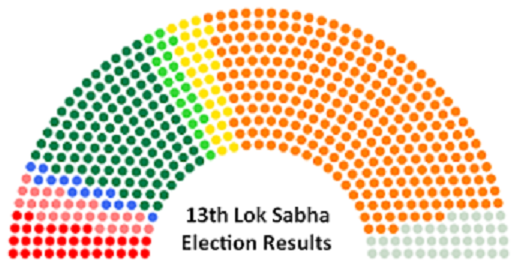 Chamber graphic for the Lok Sabha after the 1999 General Election